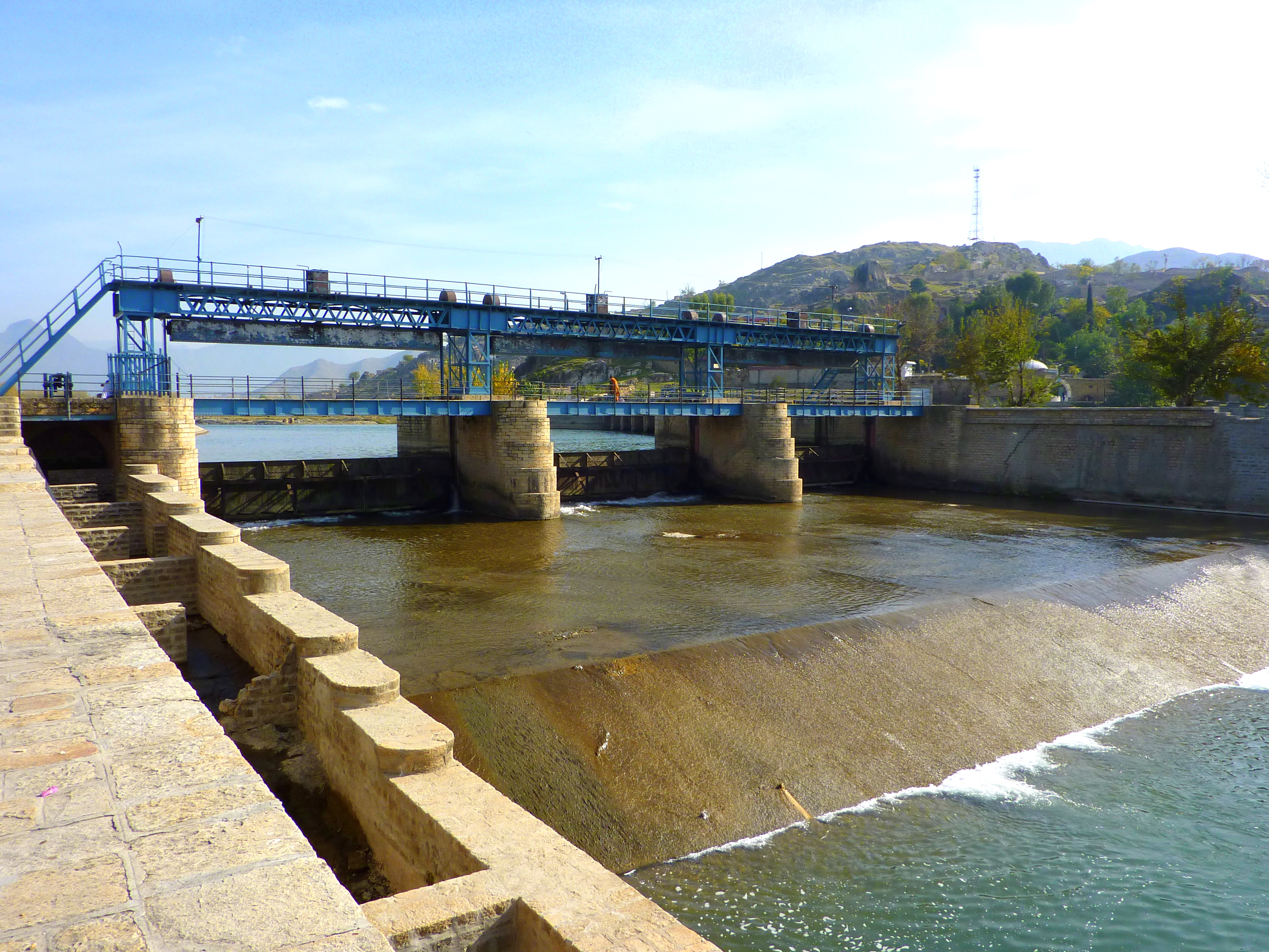 Amandara Head Works, Batkhela [Photography by Dr.Ibrahim]